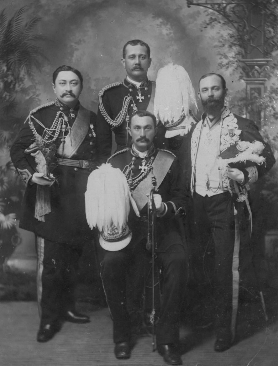 Queen Liliuokalani's staff. Standing left to right, Col. James Harbottle Boyd, Col. Henry Franz Bertelmann, Chamberlain James William Robertson. Seated Col. John Dominis Holt.